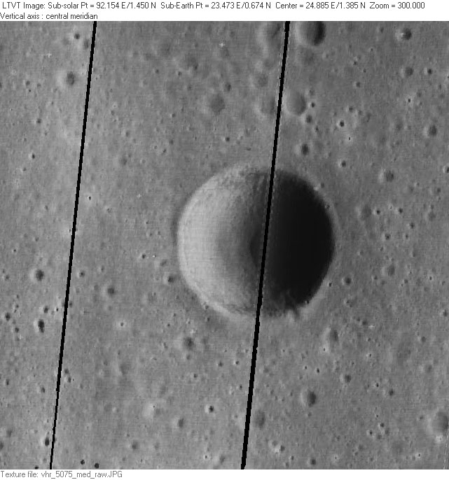 Armstrong crater